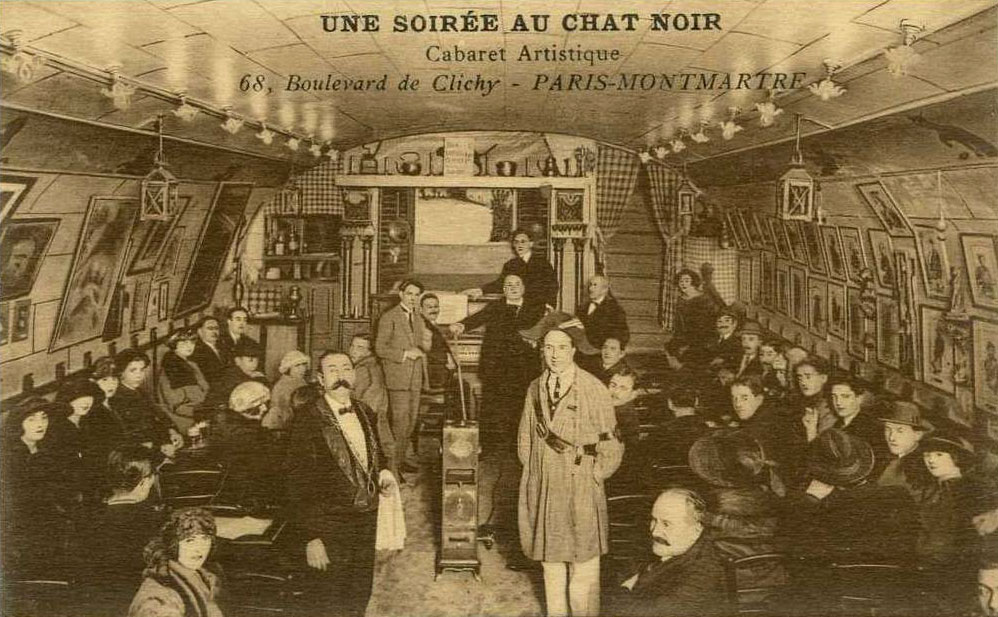 Cafe Le Chat Noir c.1920